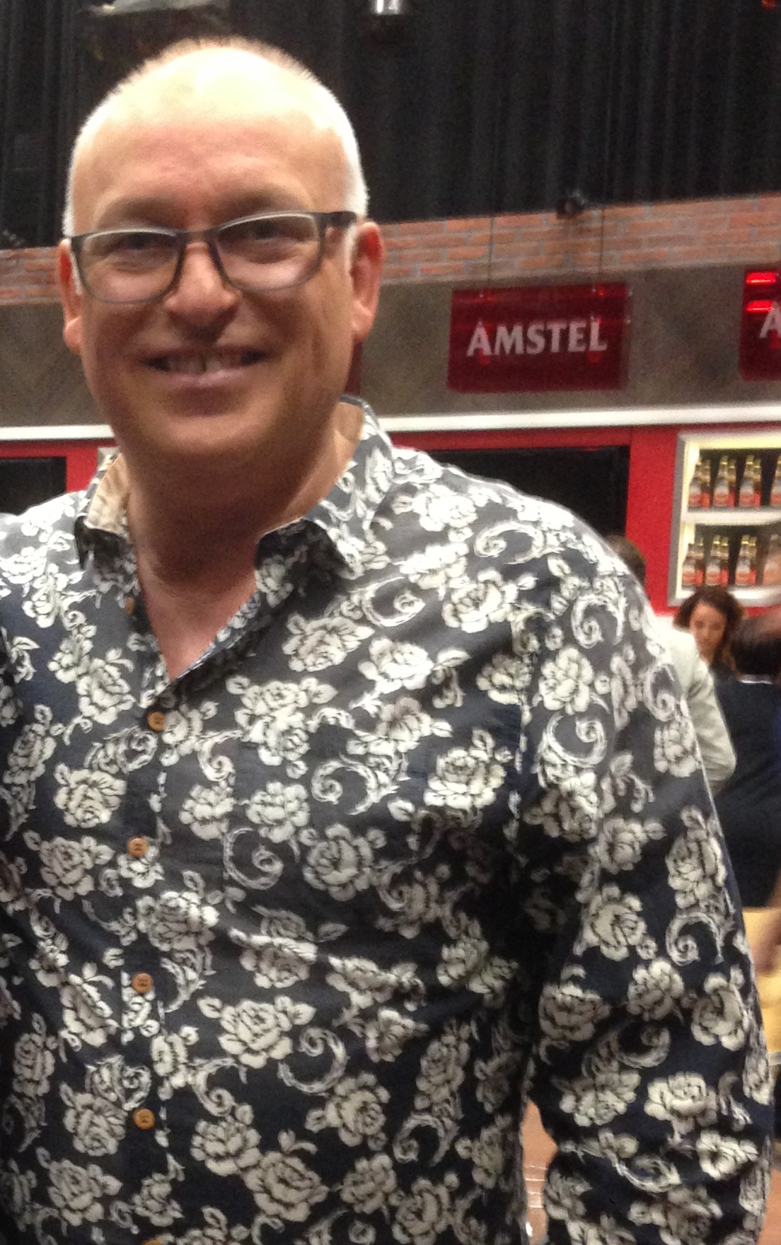 Rene van der Gijp bij Voetbal Inside